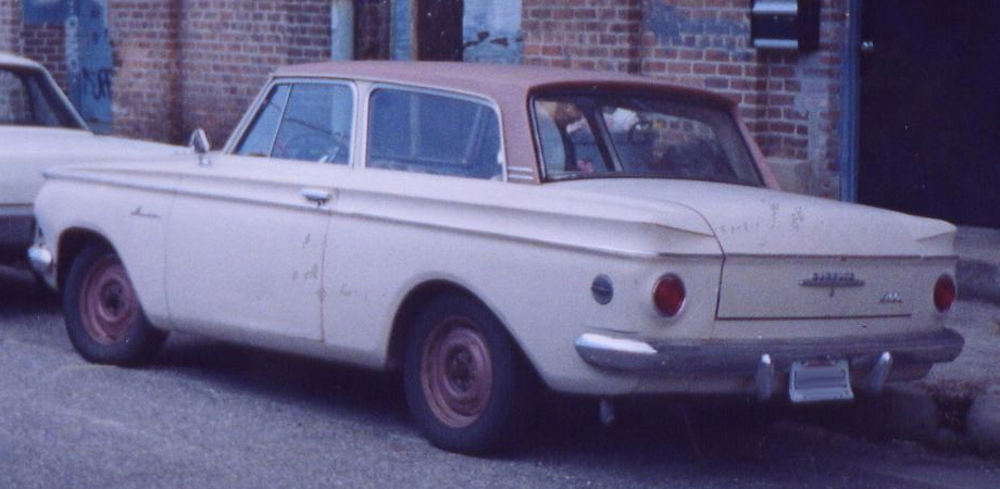 American 400 Rambler auto, still in working order, in 2003, spotted on the street in the Marigny neighborhood of downtown New Orleans